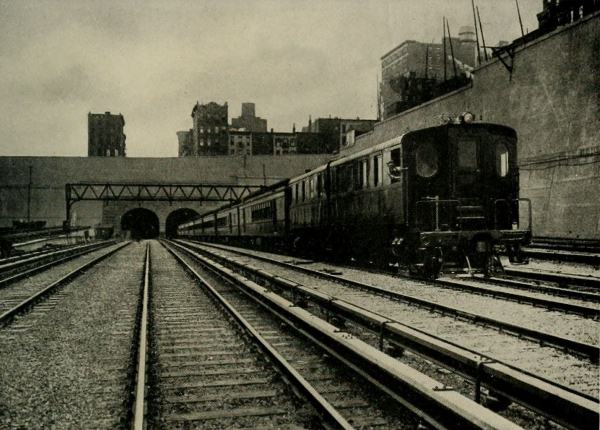 "A high-speed electric locomotive on the Pennsylvania bringing a through train out of the tunnel underneath the Hudson River and into the New York City terminal." Train entering Penn Station from New Jersey.